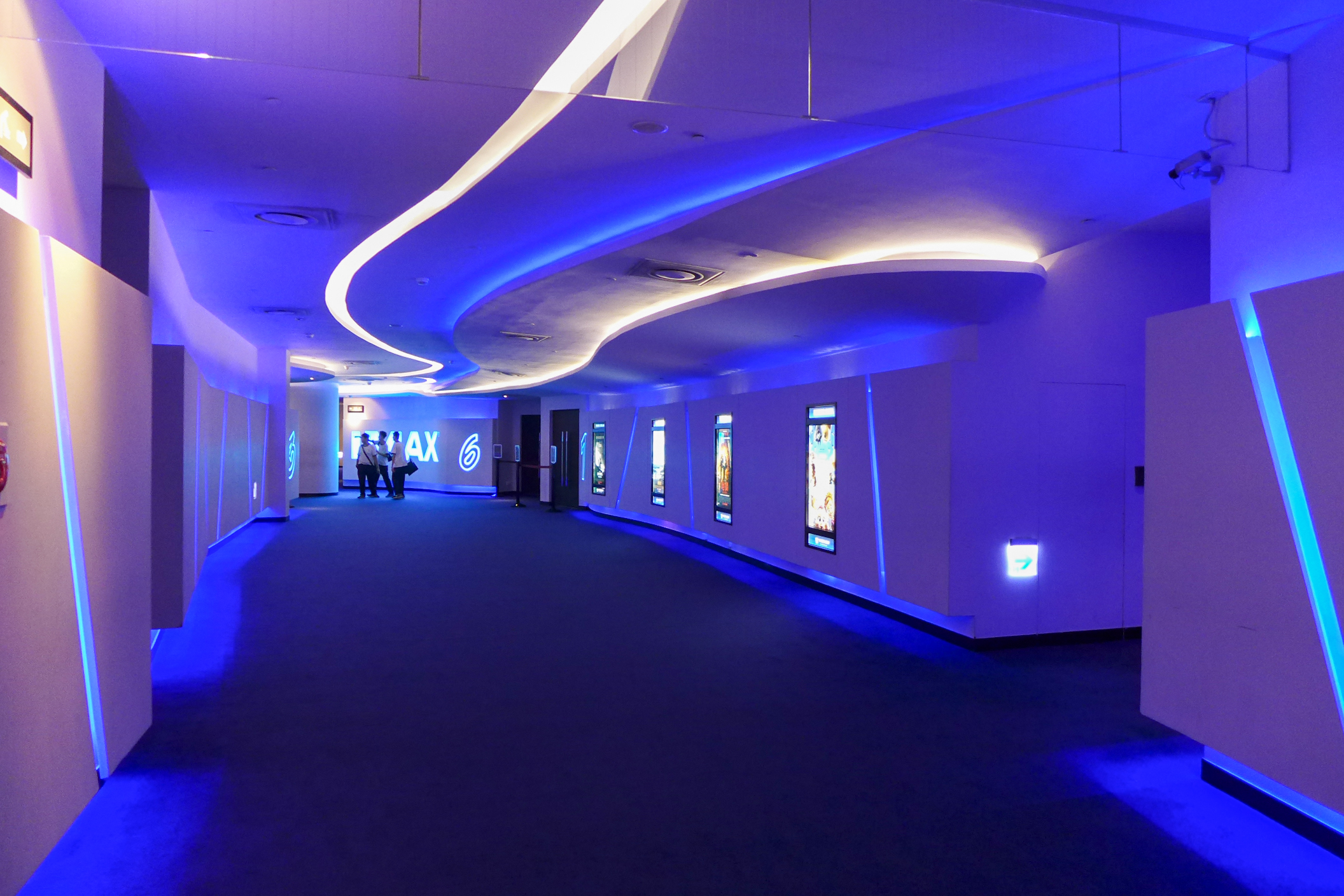 Mega City 板橋大遠百 Level 10 Vieshow Cinemas